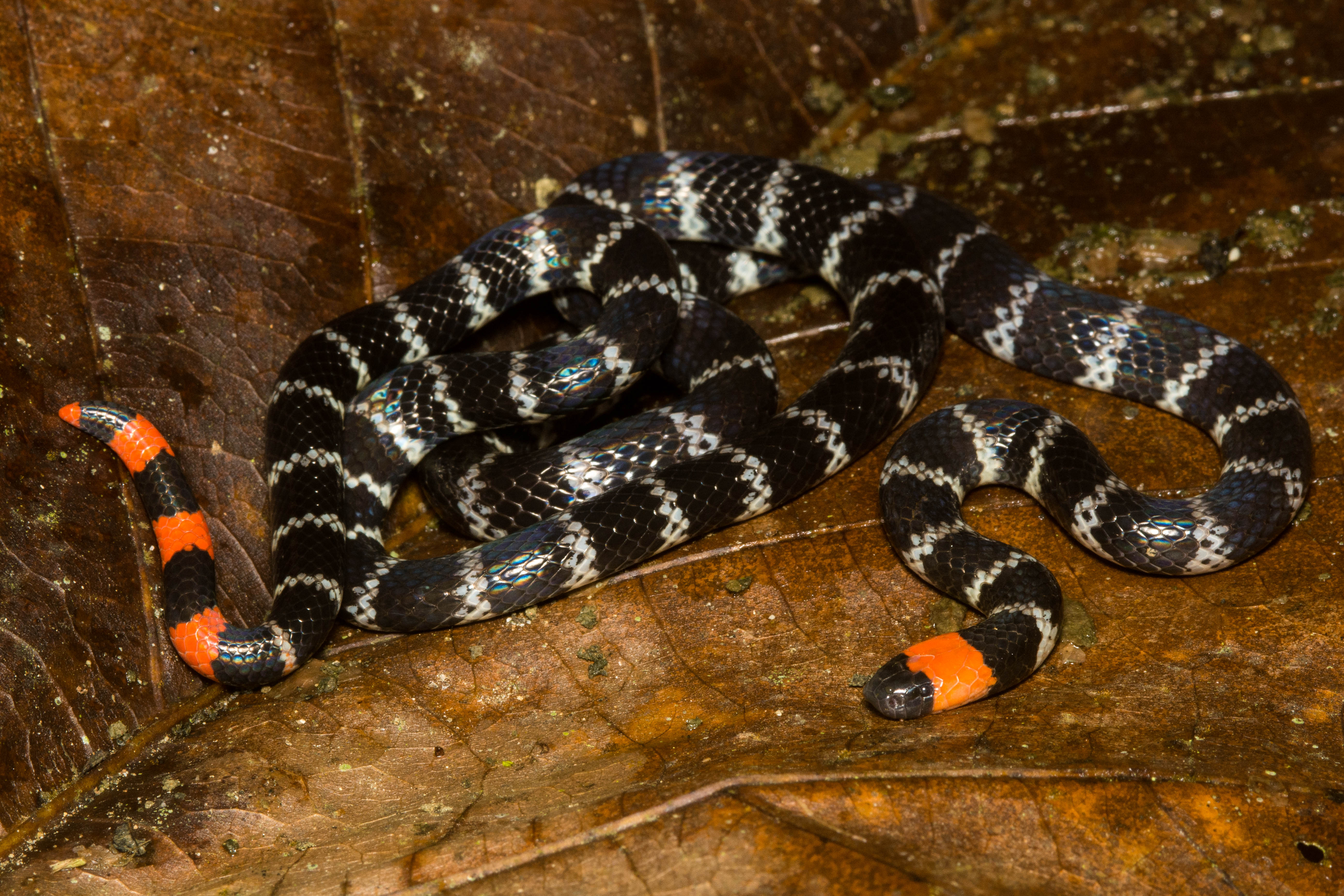 Red-tailed coral snake (Micrurus mipartitus) in Ecuador.